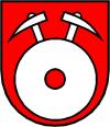 Hlinik nad Hronom - sign